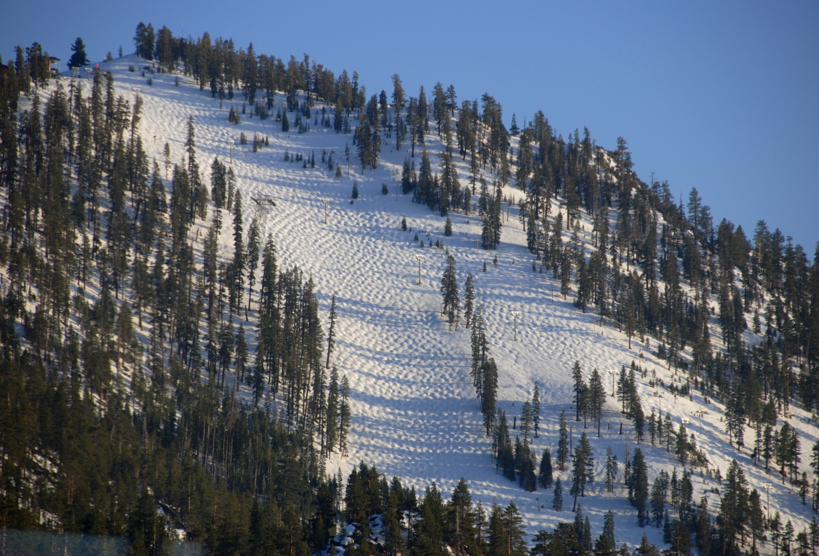 Gunbarell ski run at South Lake Tahoe, California, USA